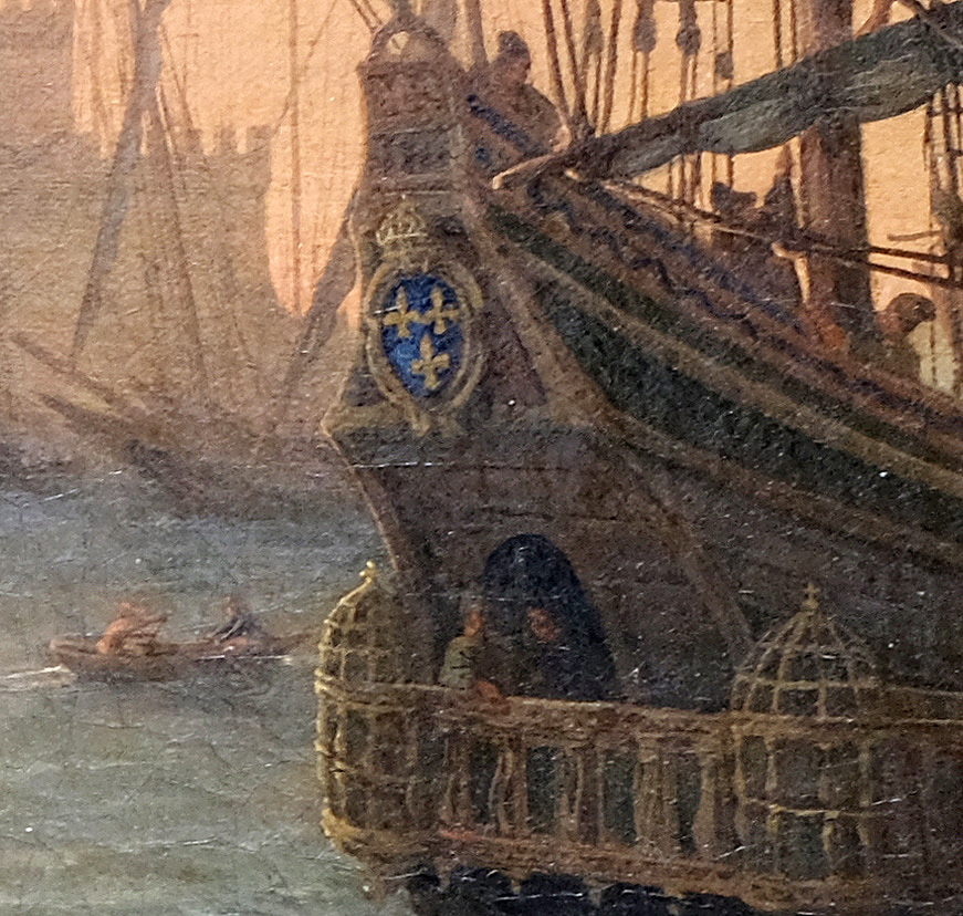 Claude Lorrain painting from 1639, as seen on French TV series Palettes